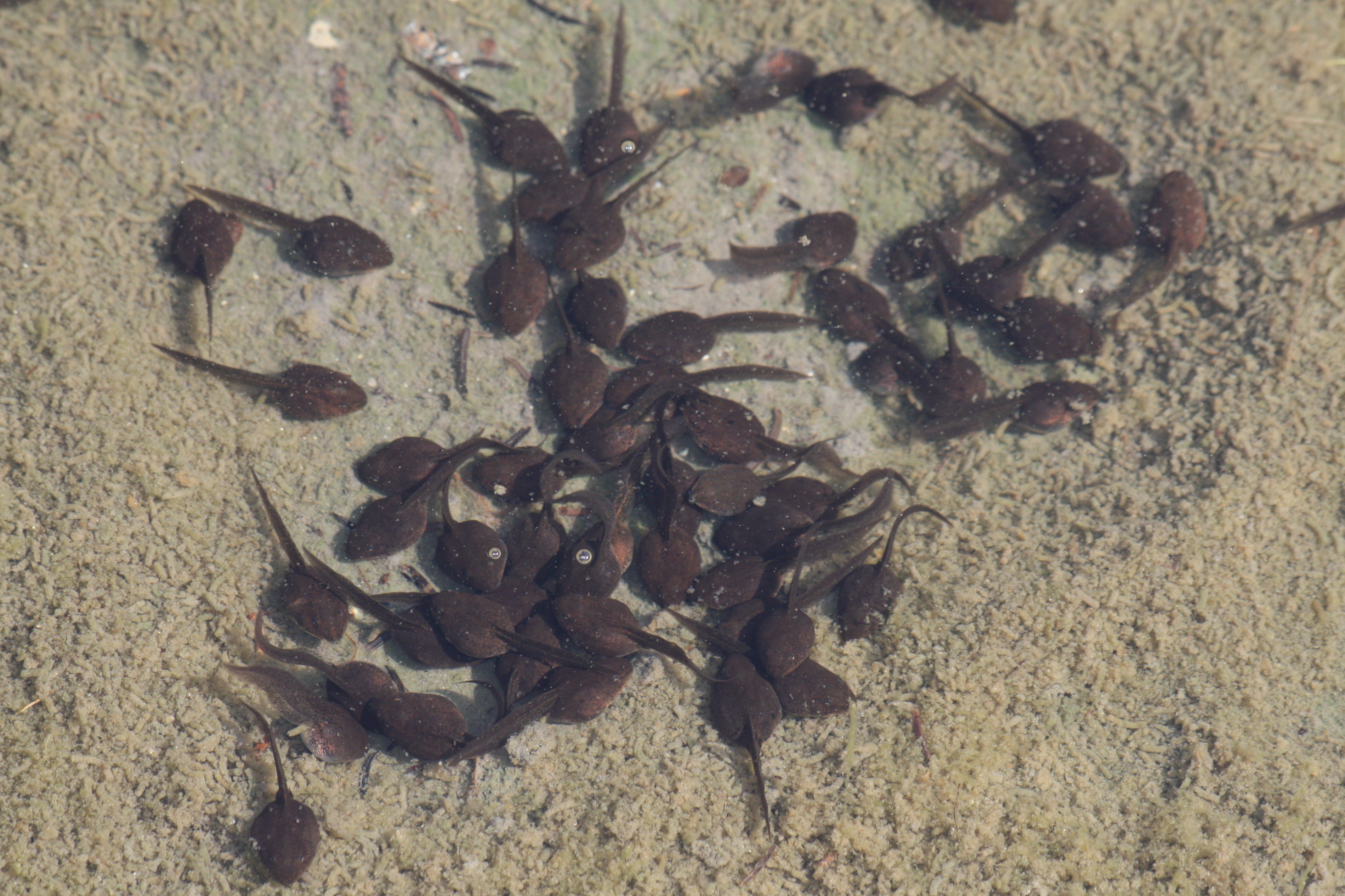 Cascades Frog larvae